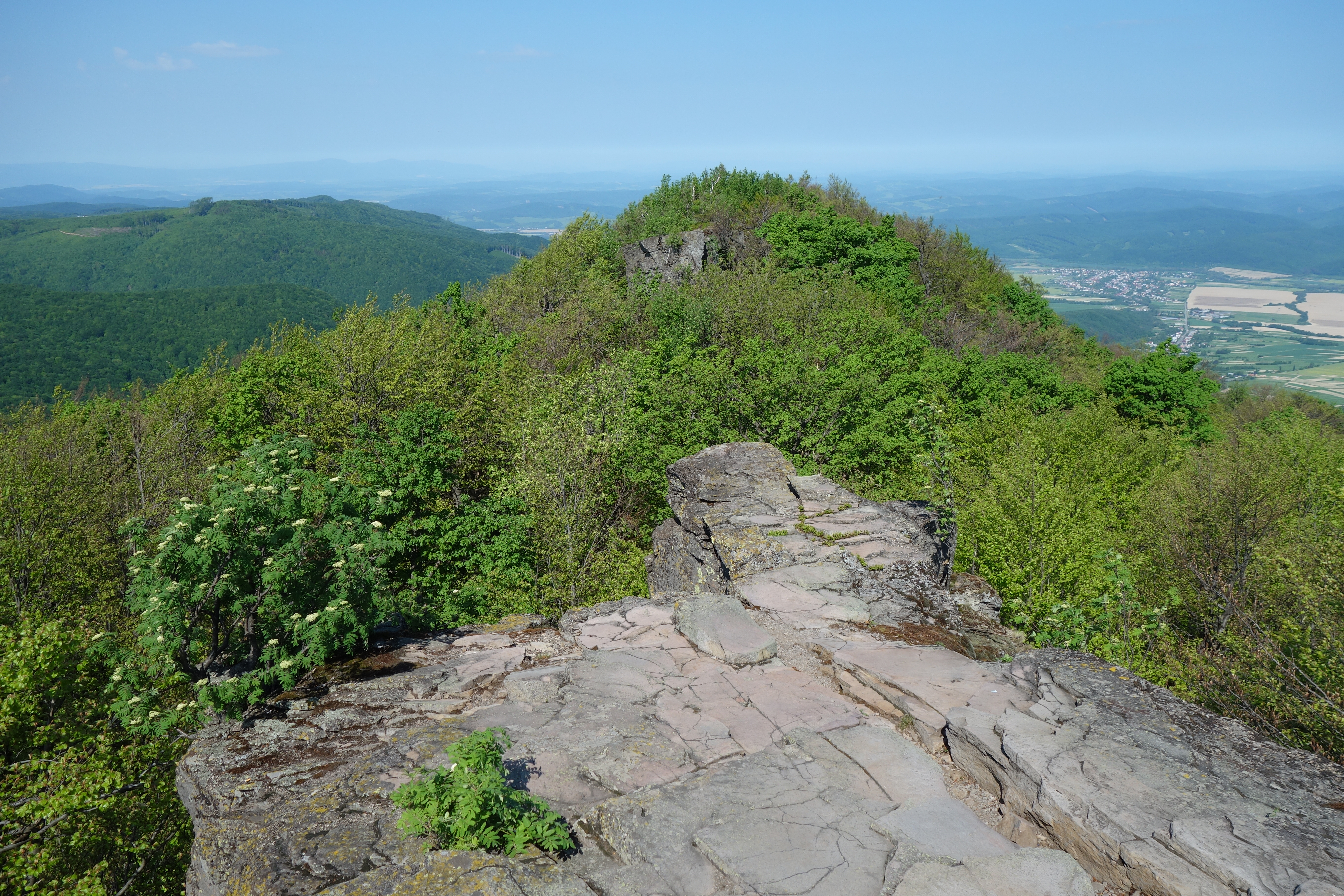 View of the Big Sninský kameň from the Small Sninský kameň This is a photography of Natura 2000 protected area with ID SKUEV0209